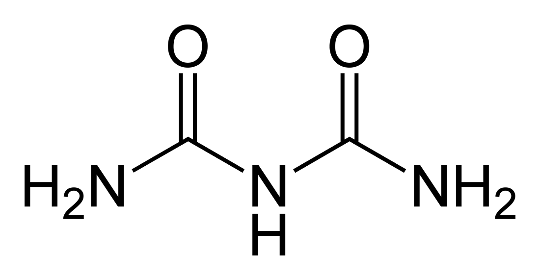 Chemical structure of biuret